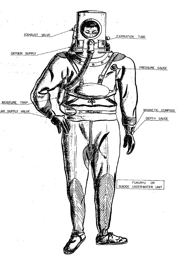 Drawing of a "Fukuryu" Fighter divingsuit